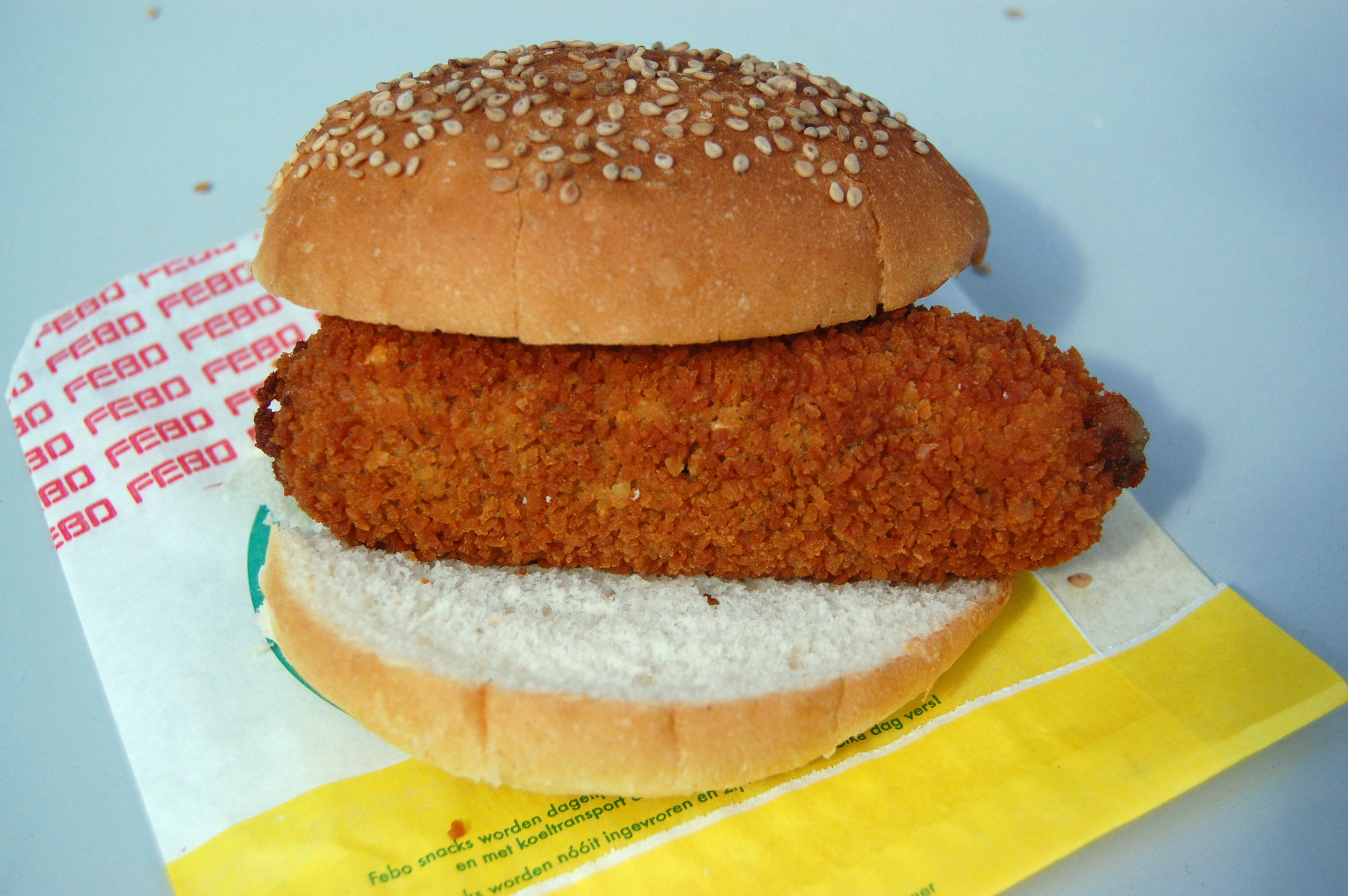 A broodje kroket from an Amsterdam branch of Febo.